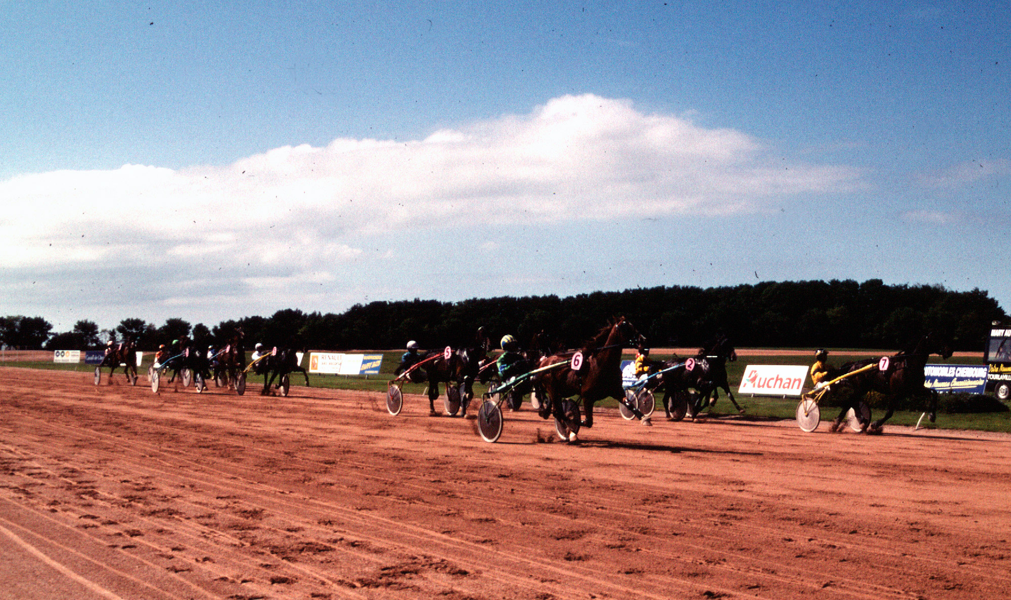 Hippodrome in La Glacerie